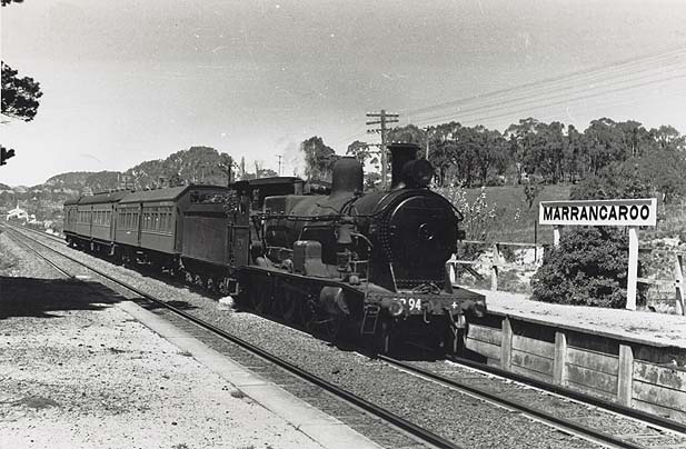 Class P6 (C3294) locomotive at Marrangaroo Railway Station Dated: No date Digital ID: 17420_a014_a014000704 Rights: We'd love to hear from you if you use our photos. Many other photos in our collection are available to view and browse on our website using Photo Investigator.